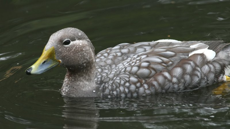 Flying Steamer Duck (Tachyeres patachonicus) This image was created by Ken Billington. If you are interested in a high resolution copy of this image, please contact the author Ken Billington in order to negotiate conditions of use. Do not copy this image illegally by ignoring the terms of the license below, as it is not in the public domain. If you would like special permission to use, license, or purchase the image please contact me to negotiate terms. More free images can be found on Ken Billington's Bird & Wildlife Photography.